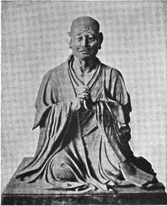 Image of the Buddhist monk Genbō who was the abbot (sōjō) of Kōfuku-ji in Nara in the 8th century